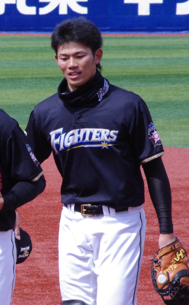 Shota Ohno, catcher of the Hokkaido Nippon-Ham Fighters, at Yokohama Stadium.